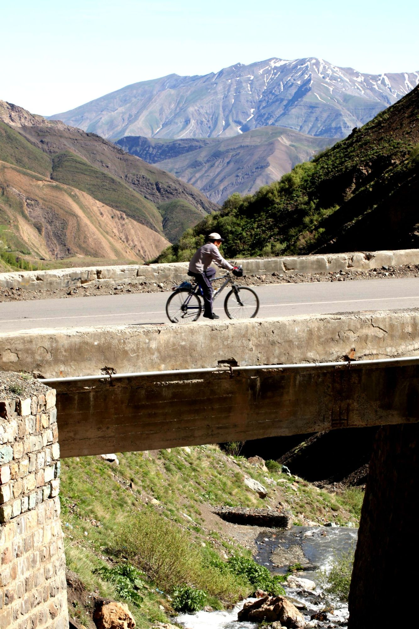 Shemshak, Tehran Province, Iran